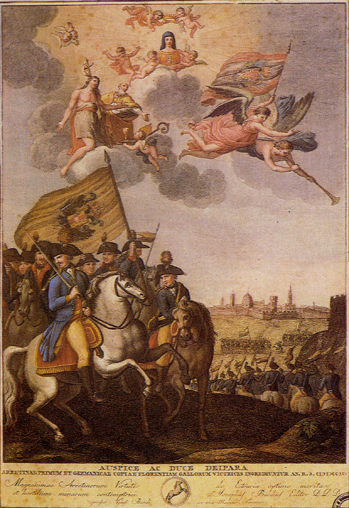 The troops of Viva Maria arriving at Florence on July 1799.